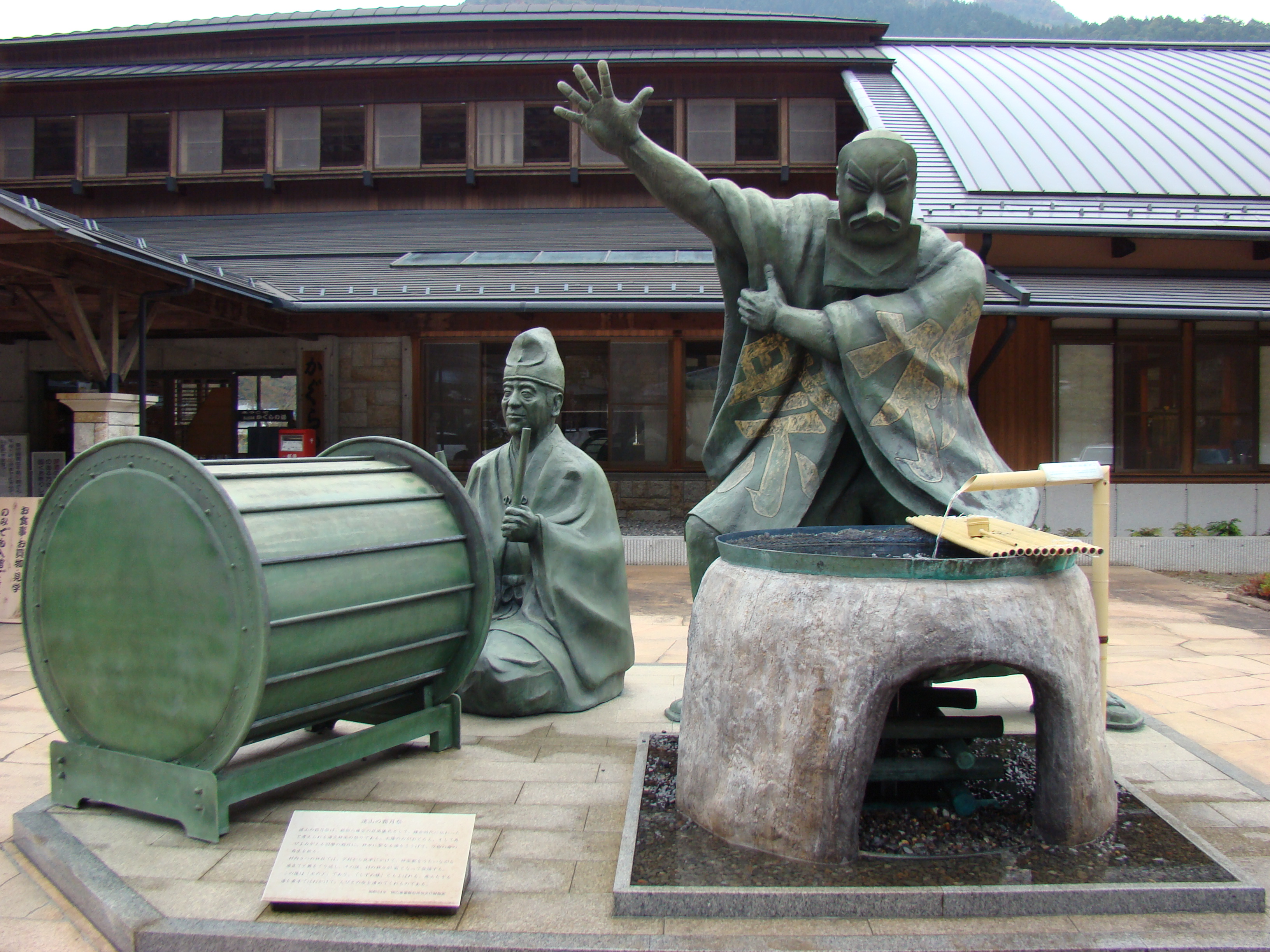 Toyama's Shimotsuki Festival The Japanese meaning that is written on the left lower panel： It is the festival of the Yudate-Kagura（湯立神楽） that it is thought that the Toyama's Shimotsuki Festival（遠山の霜月祭り） came as manor courtesy of Tsuruoka Hachimangu Shrine in the Kamakura era. In November of the lunar calendar（＝霜月）solar power declines and to revive again, We give sacred bath to the gods and pray for reproduction of the life of all things. In 9 shrines in the Minamishinano Village, We repeat Yudate and a dance from an evening through midnight while singing a hymn song in Kagura, and the gods of the village appear as OMOTE（面）afterwards . This bronze statue is "Mizu-no-Ou（水の王）", and all "Shizume-Sama（しずめ様）" of them is invited an another name to.He splashes it with boiling hot water barehanded and cleanses the life of people. Important Intangible Folk-Cultural Property 1979 ※Yudate（湯立て）is a meaning of magical rite with boiling water. ※OMOTE（面）is the mask which imitated God or a farmer. ※Mizu-no-Ou（水の王）is a meaning of the King of the Water. Place - Wada-Minamishinano,Iida City,Nagano Prefecture,Japan. Date - October 25, 2009 Format - JPEG, 3264x2448pixel, 24bit colors. Photographer - NALA Wiki (talk)